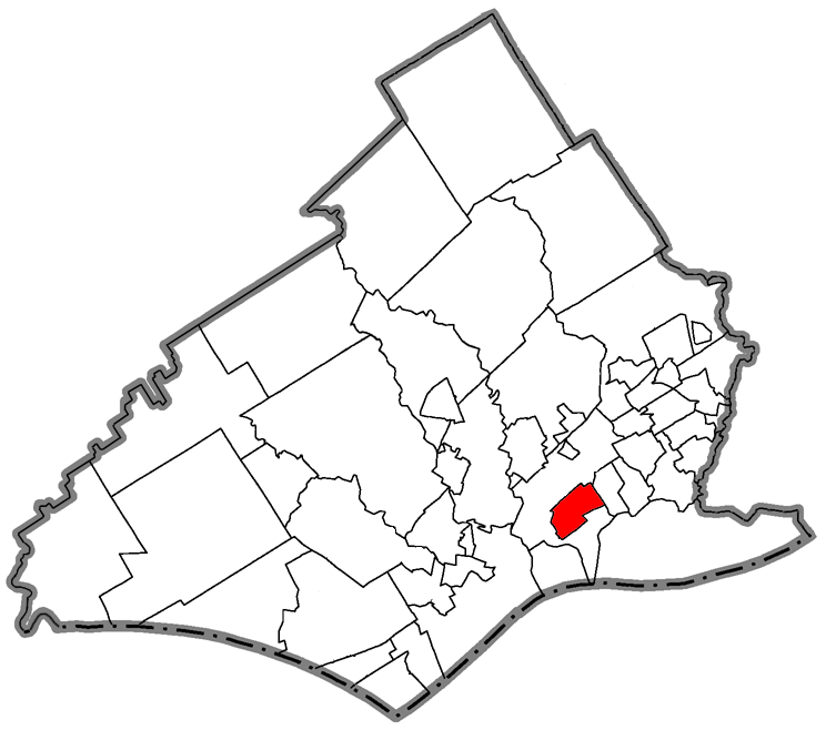 Showing the location within Delaware County, Pennsylvania.